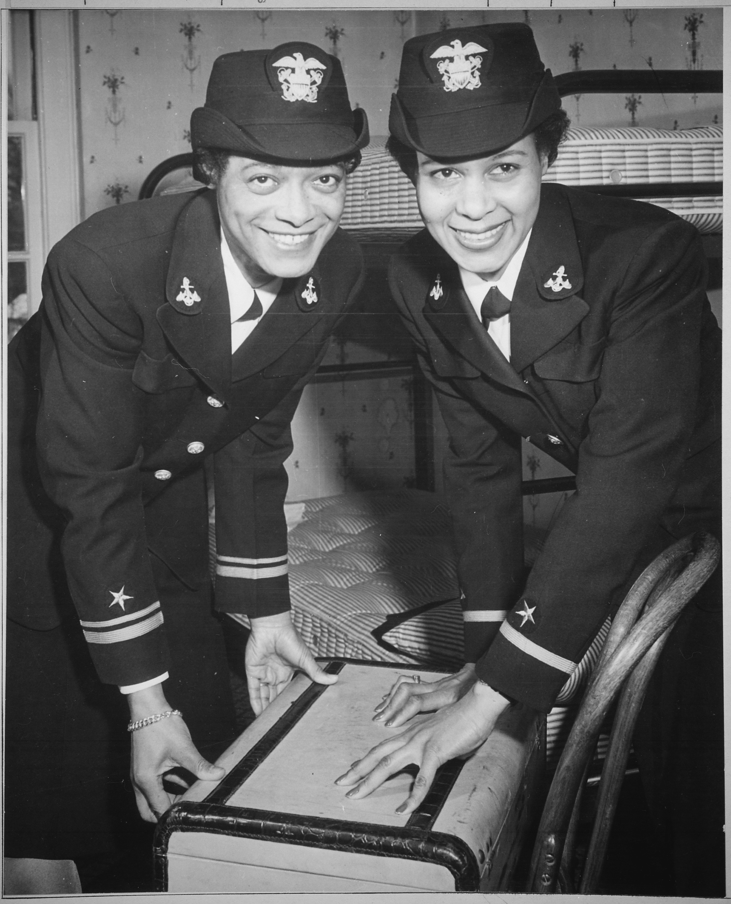 General notes: Cropped view.